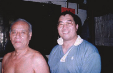 Sum Nung with Disciple Felix Leong